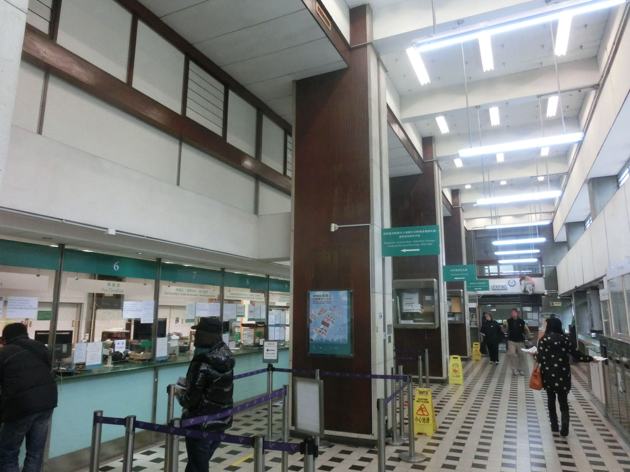 九龍中央郵政局, Kowloon Government Offices & the Kowloon Central Post Office, Yau Ma Tei, Hong Kong